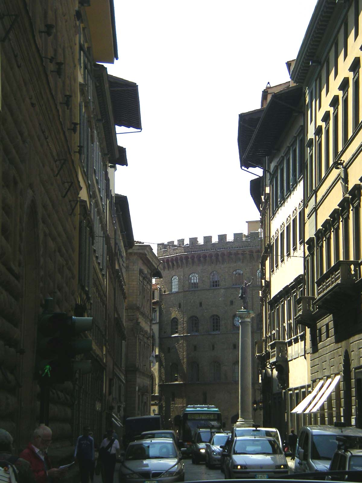 Via Tornabuoni, in Florence, Italy Firenze